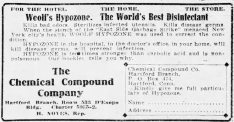 Advertisement for Woolf's Hypozone. Advertised as a germicide dairy sterilizer antiseptic